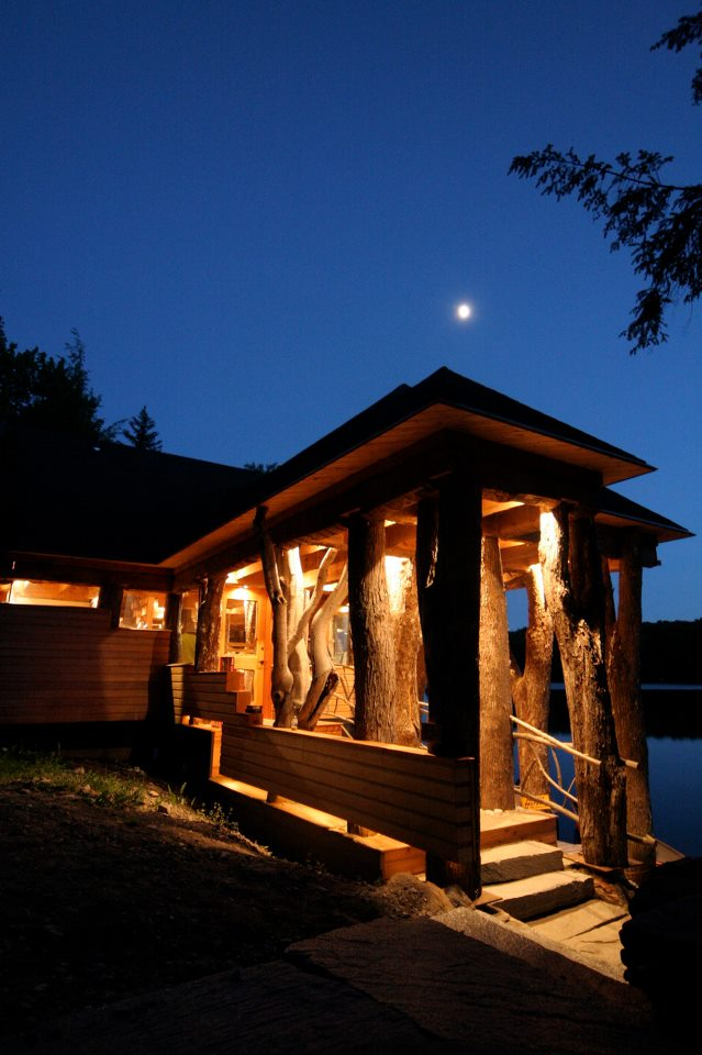 detail.